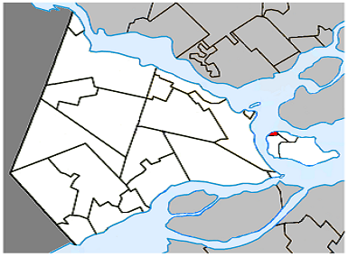 Location of Terrasse-Vaudreuil, Quebec within Vaudreuil-Soulanges Regional County Municipality.